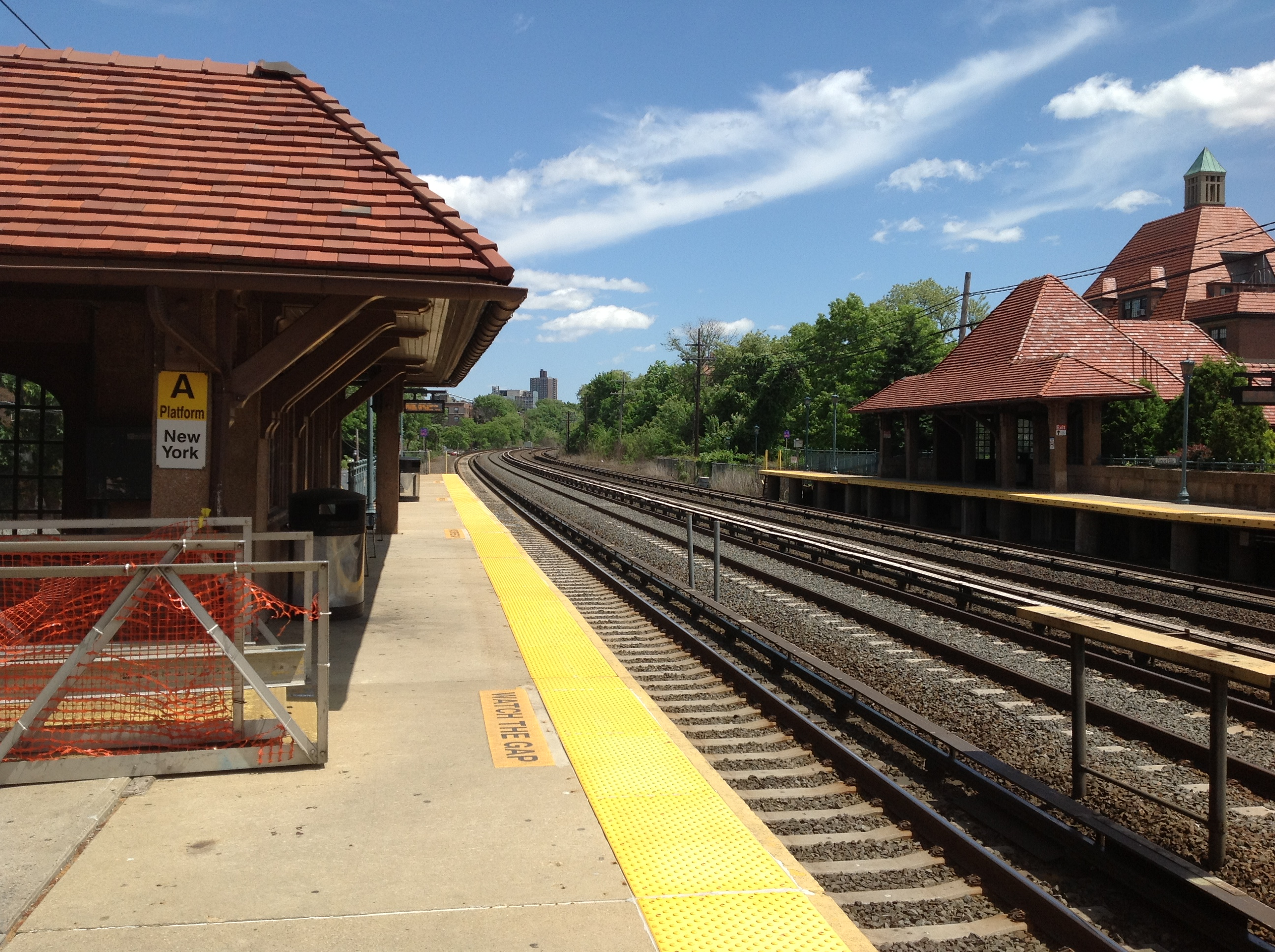 Forest Hills LIRR Station Platform A